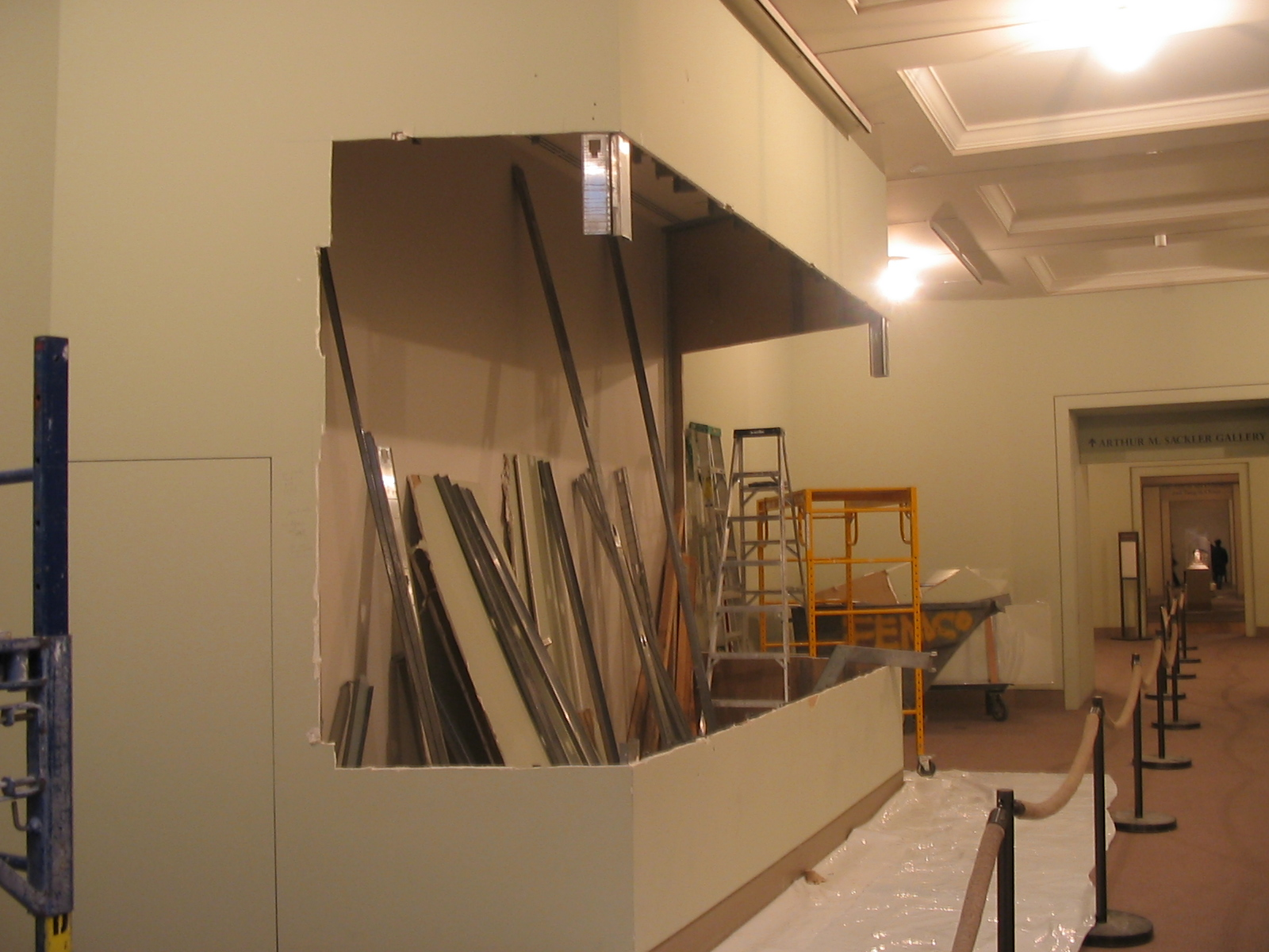 Image taken by me for Wikipedia